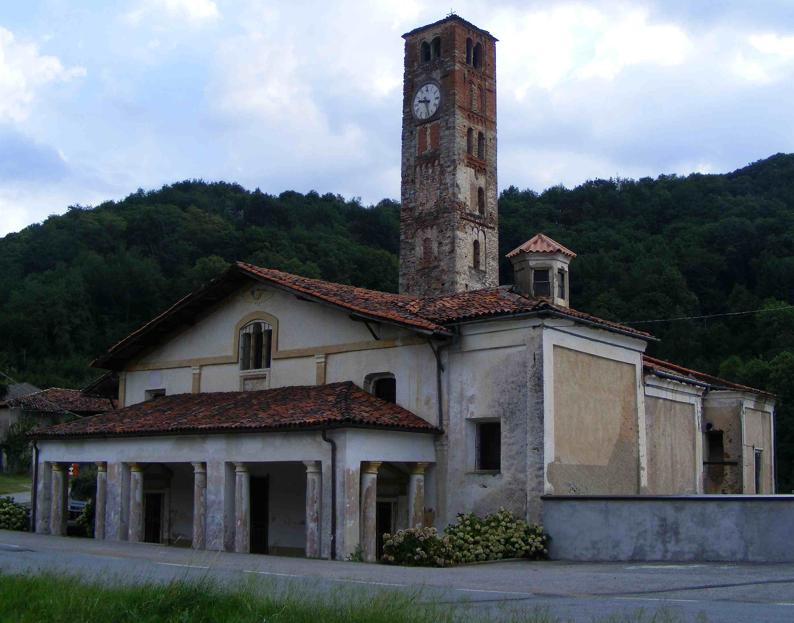 Assunta church in Santa Maria - Curino (BI, Italy)